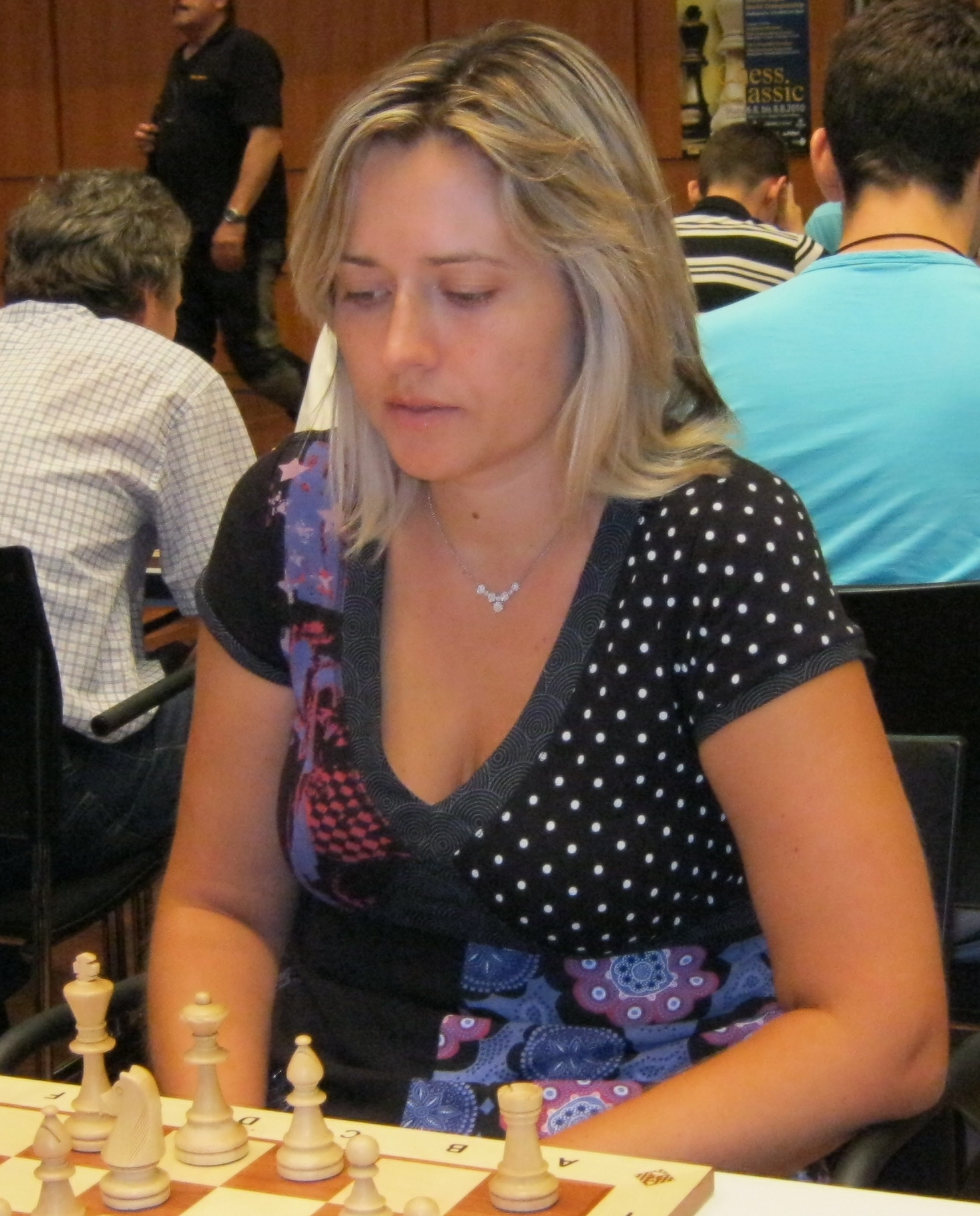 Natalia Zhukova, chess player from Russia